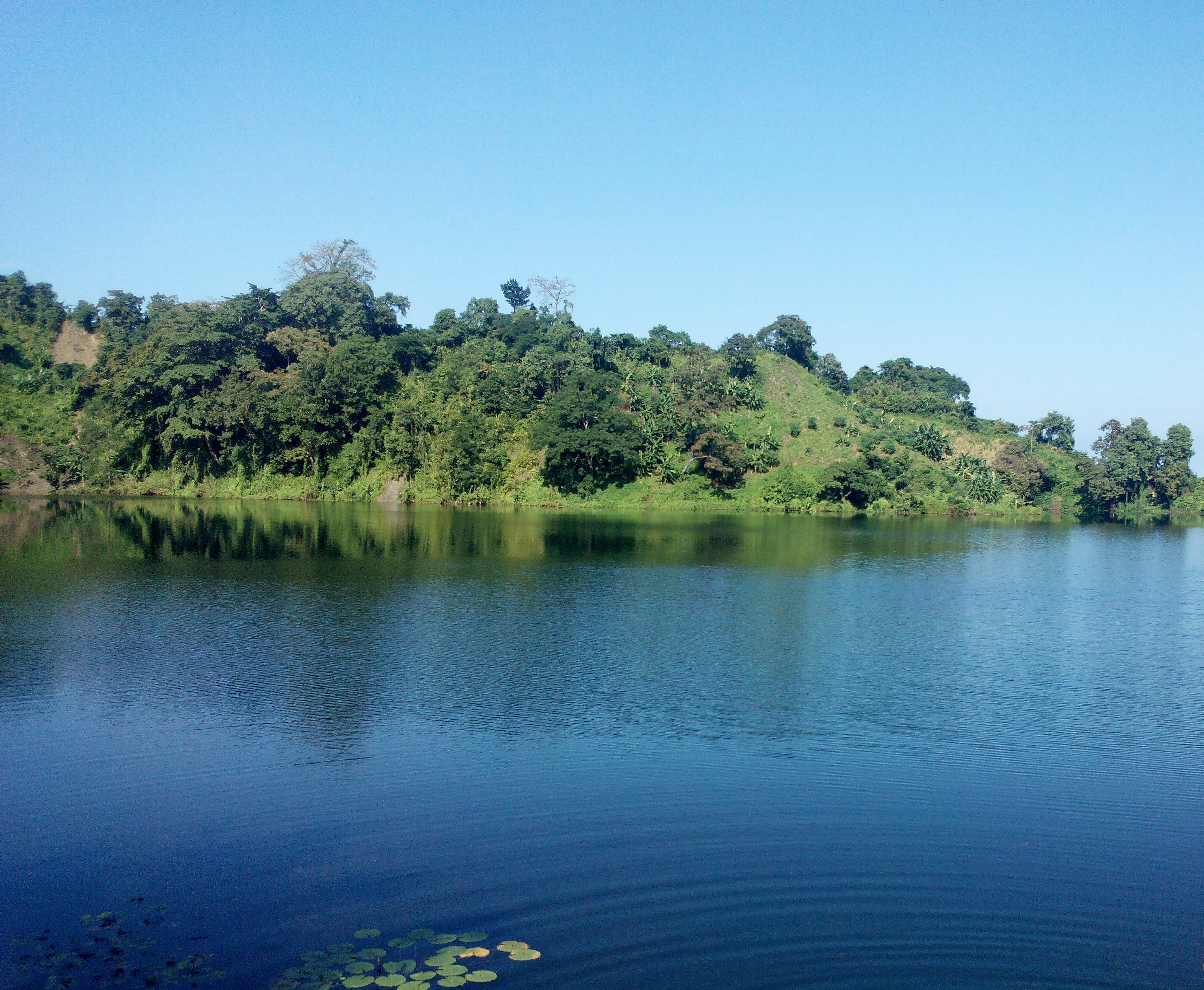 Boga Lake - Blue Water